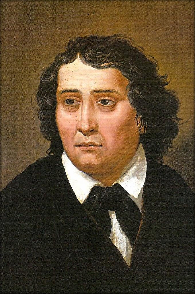 The first depiction of the Slovene poet France Prešeren and the only one created from memory of his true appearance.